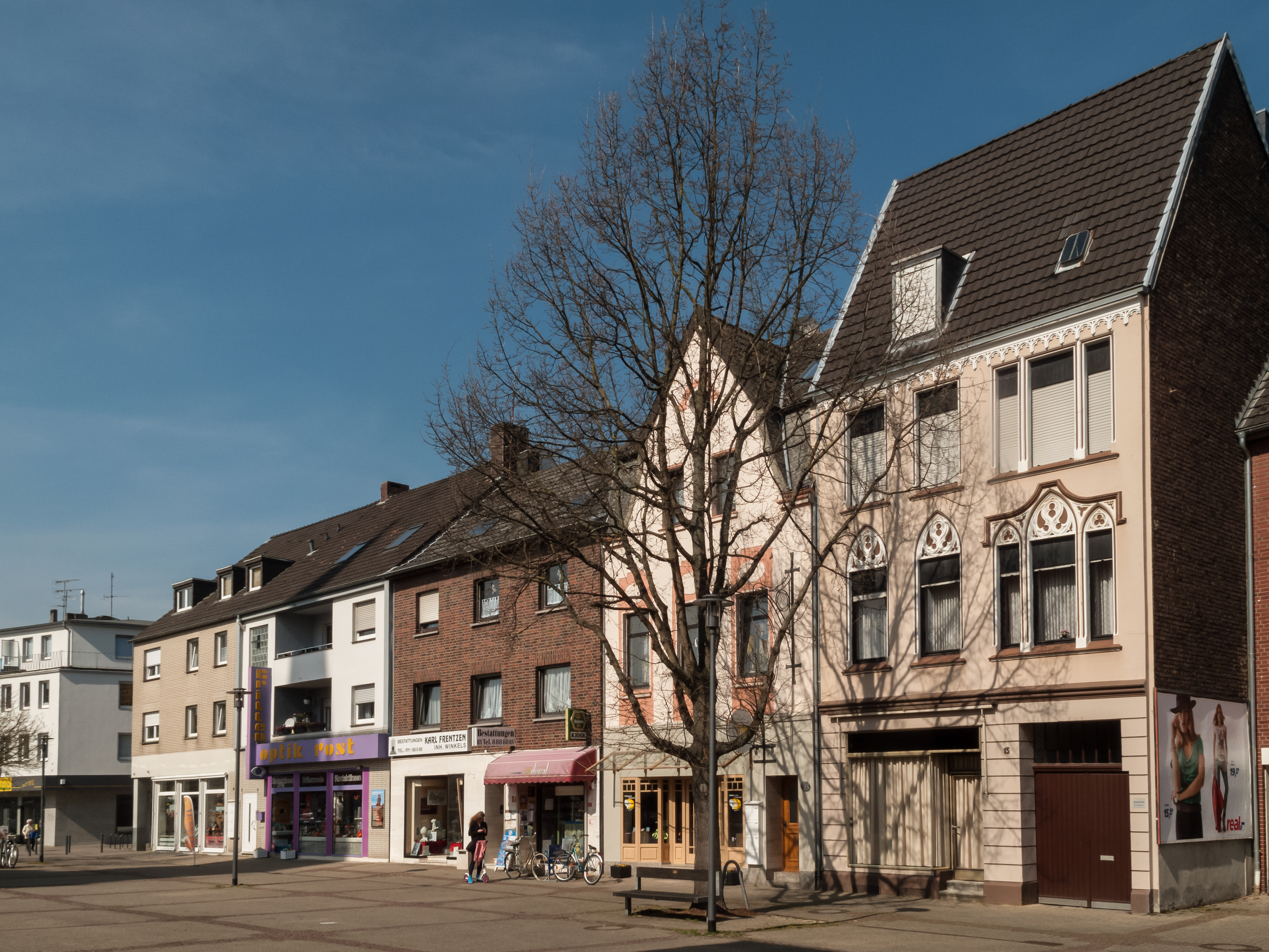 Giesenkirchen, view to a s treet: der Konstantinplatz